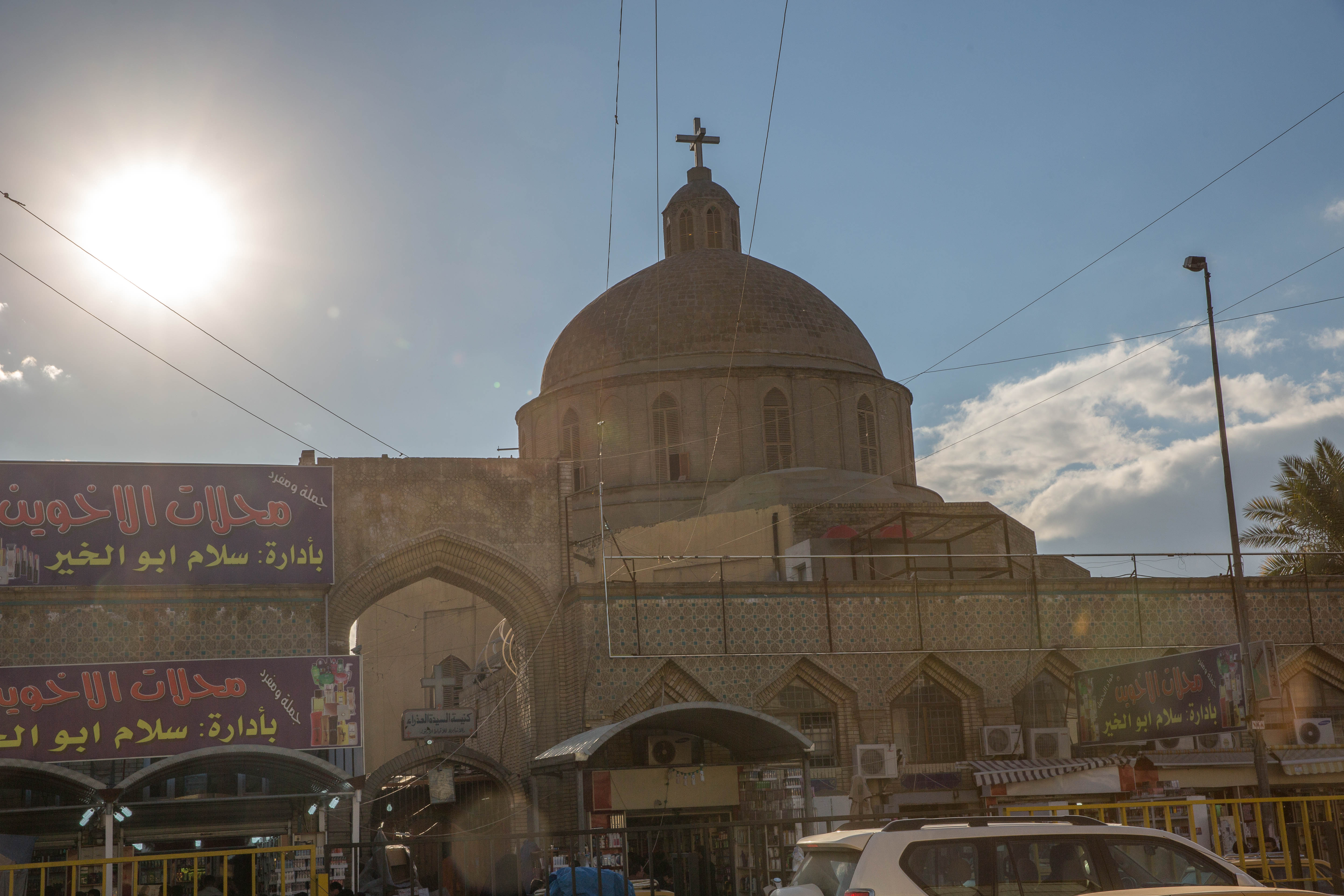 Latin Cathedral of Saint Joseph in Shorja market, Baghdad